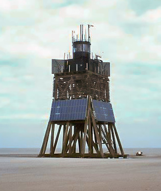 Lighthouse on Süderoogsand, Northern Friesland, Germany